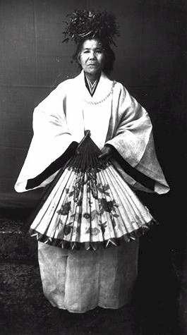 Noro (Ryukyuan priestess)